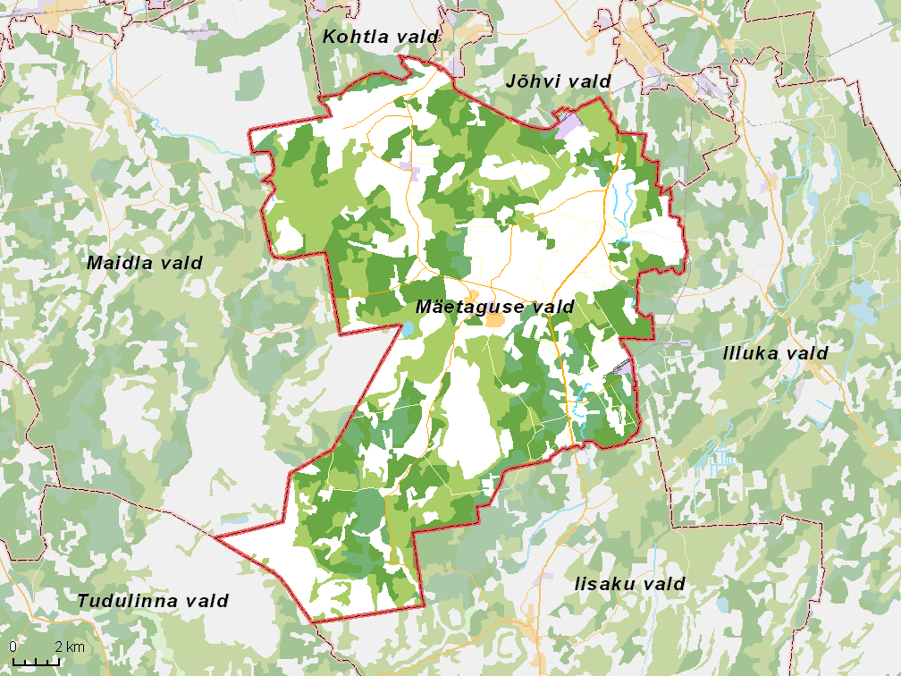 Map of municipality in Estonia